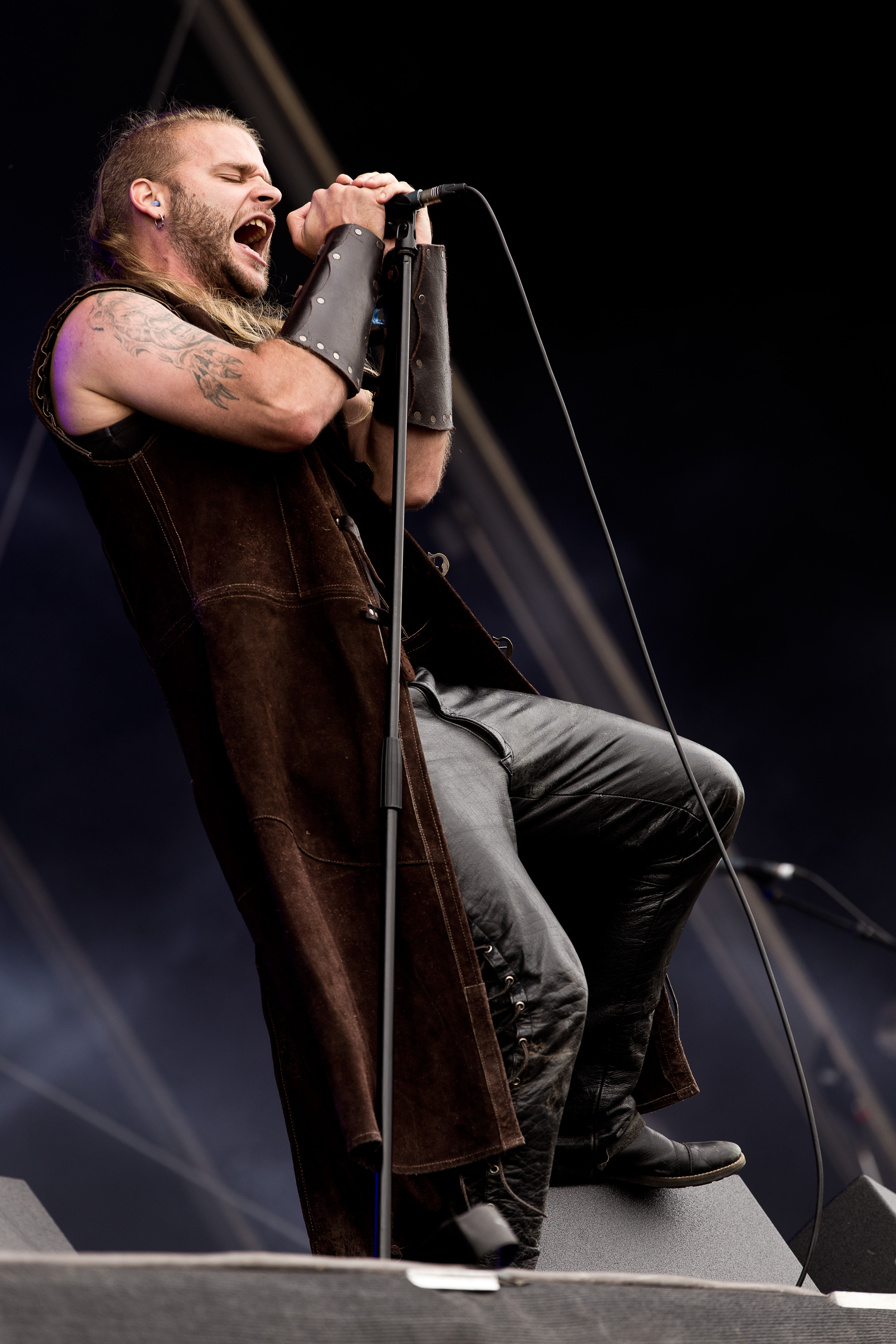 The Swedish power metal band Twilight Force at the Rockharz Open Air 2016 in Ballenstedt/Germany.